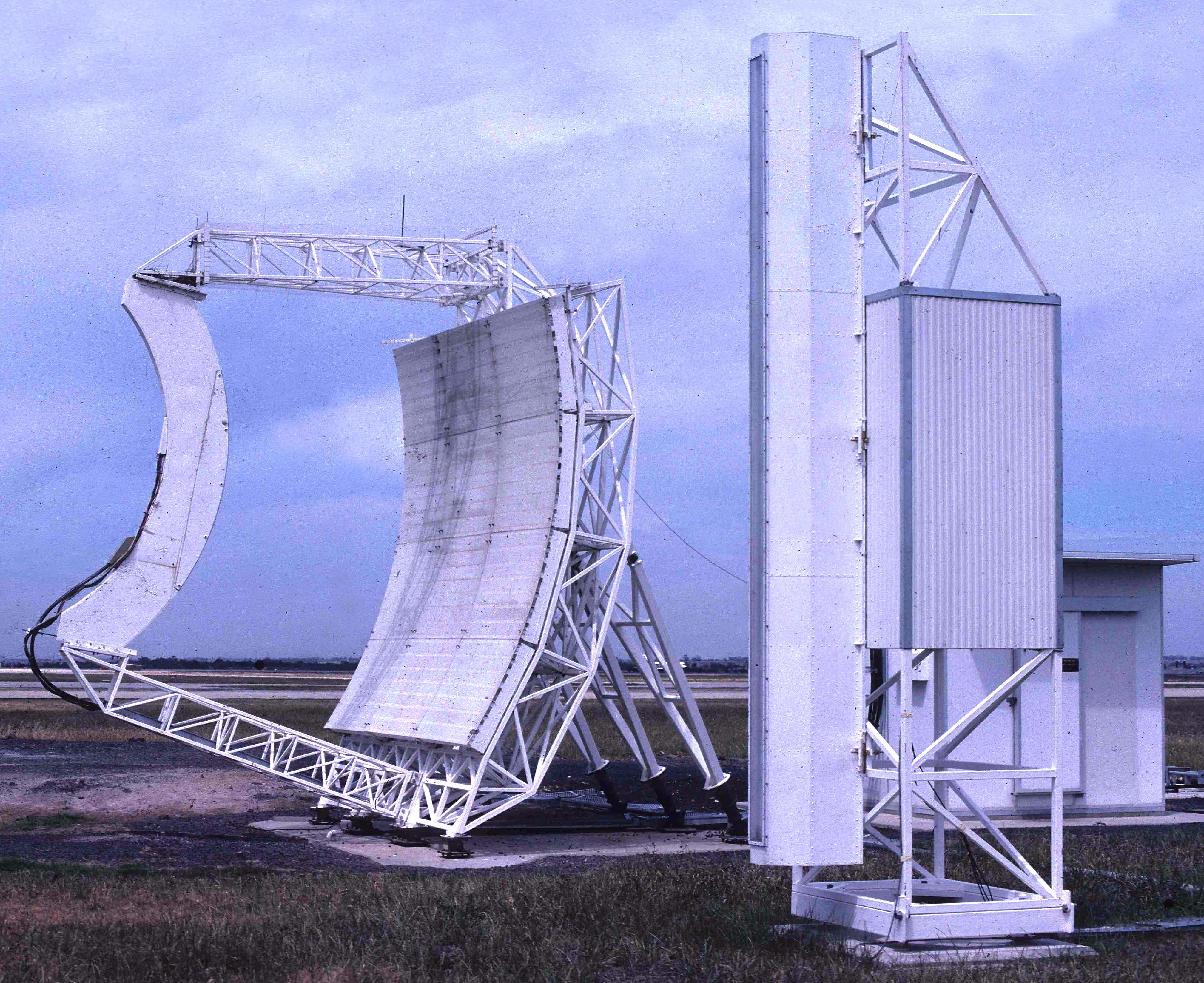 Colour photograph of two large white-painted items of equipment (the left being a parabolic 'dish' with straight sides; the right a tall, narrow structure) on grass, with cloudy sky above.